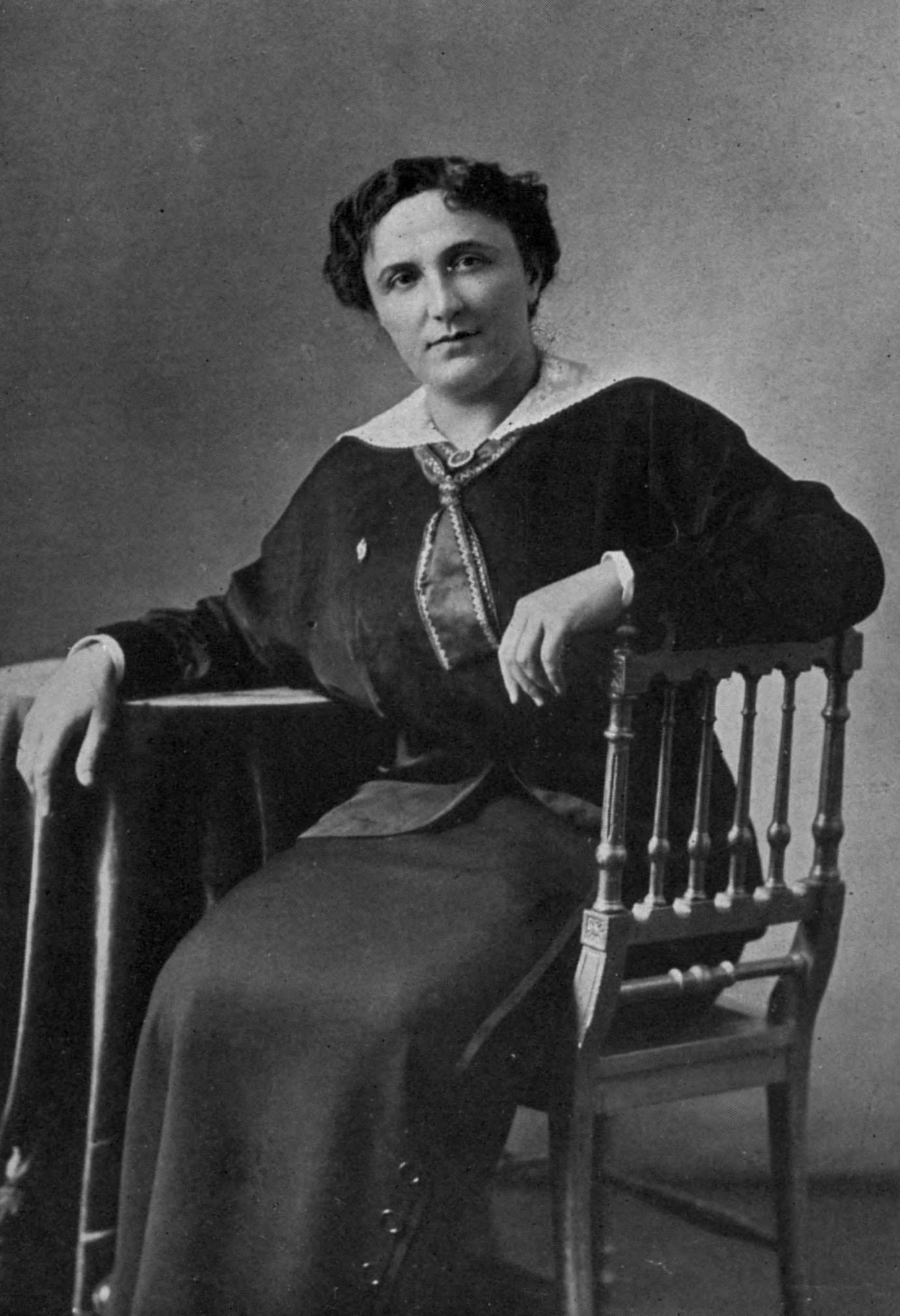 DR. POLIKSENA SHISKINA YAVEIN, who led 45,000 women to the duma in Petrograd to make their calling to citizenship sure.